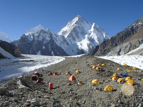 K2 with the Base Camp of Broad Peak in the foreground. Taken during the filming of "Daring to Dream" by Carl Drew.